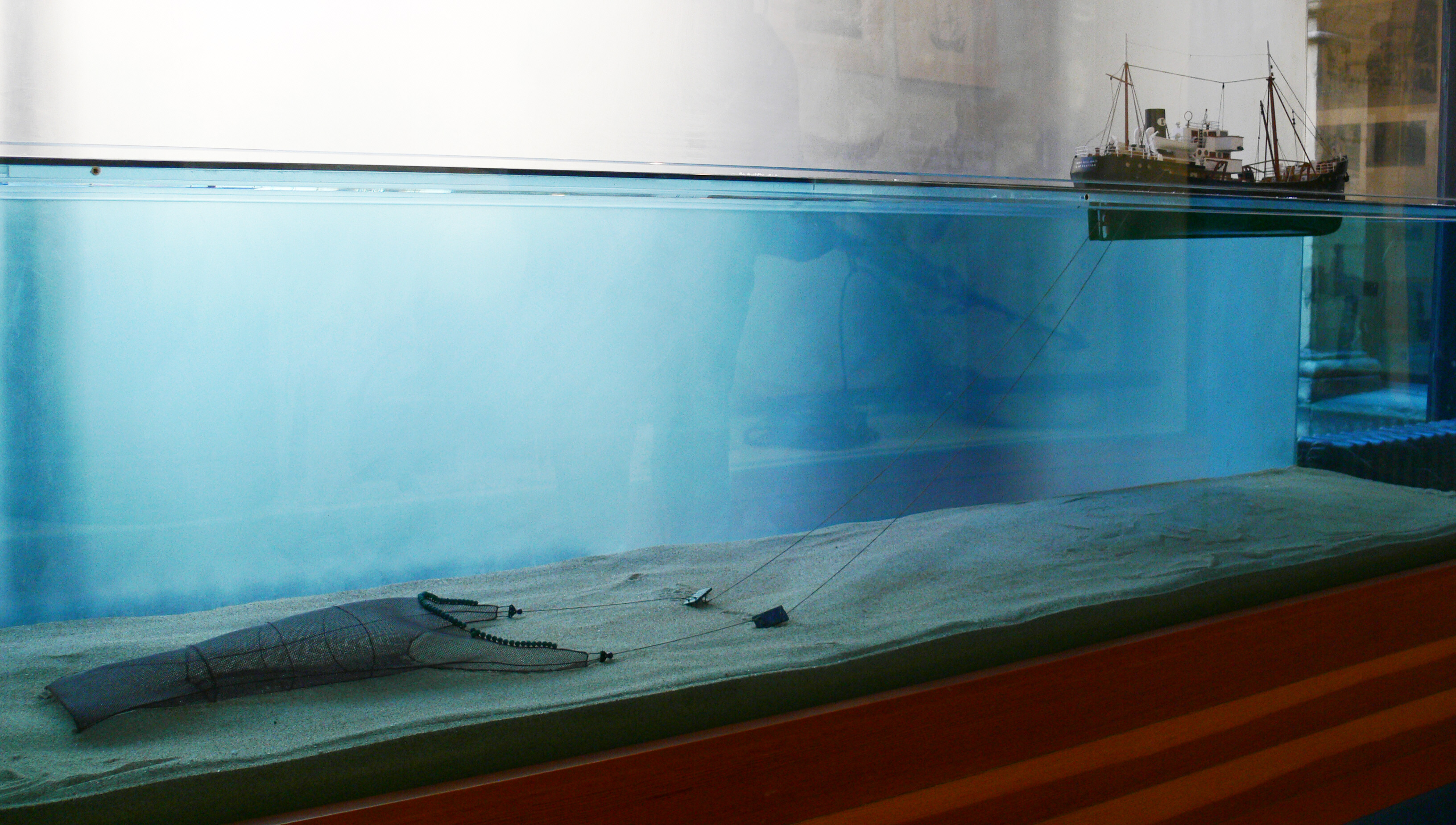 Model of a fishing technique.